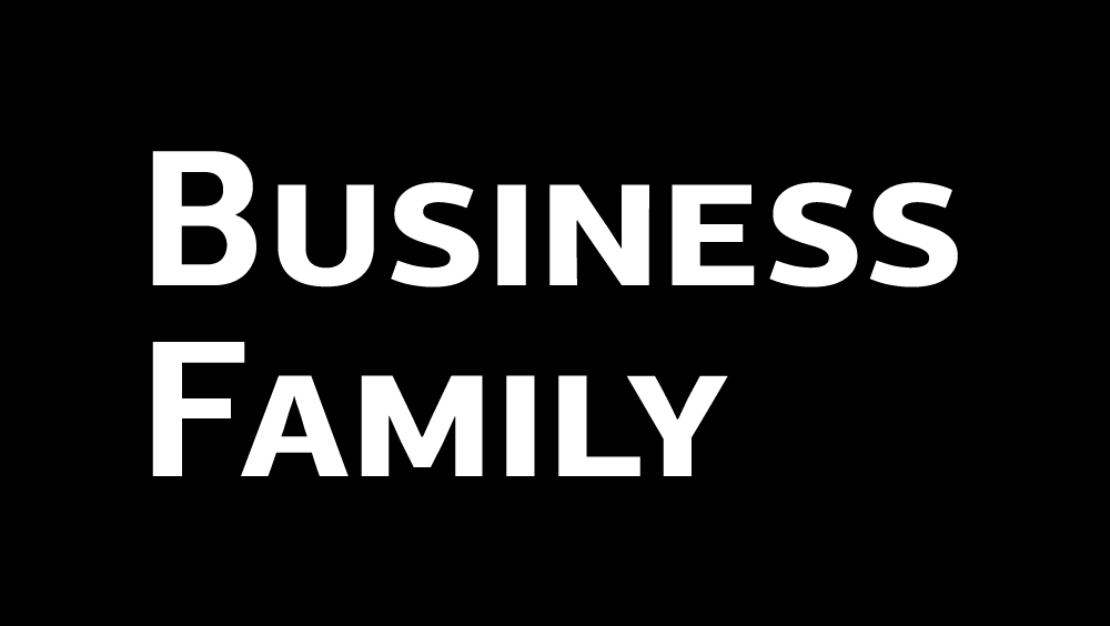 Original logo